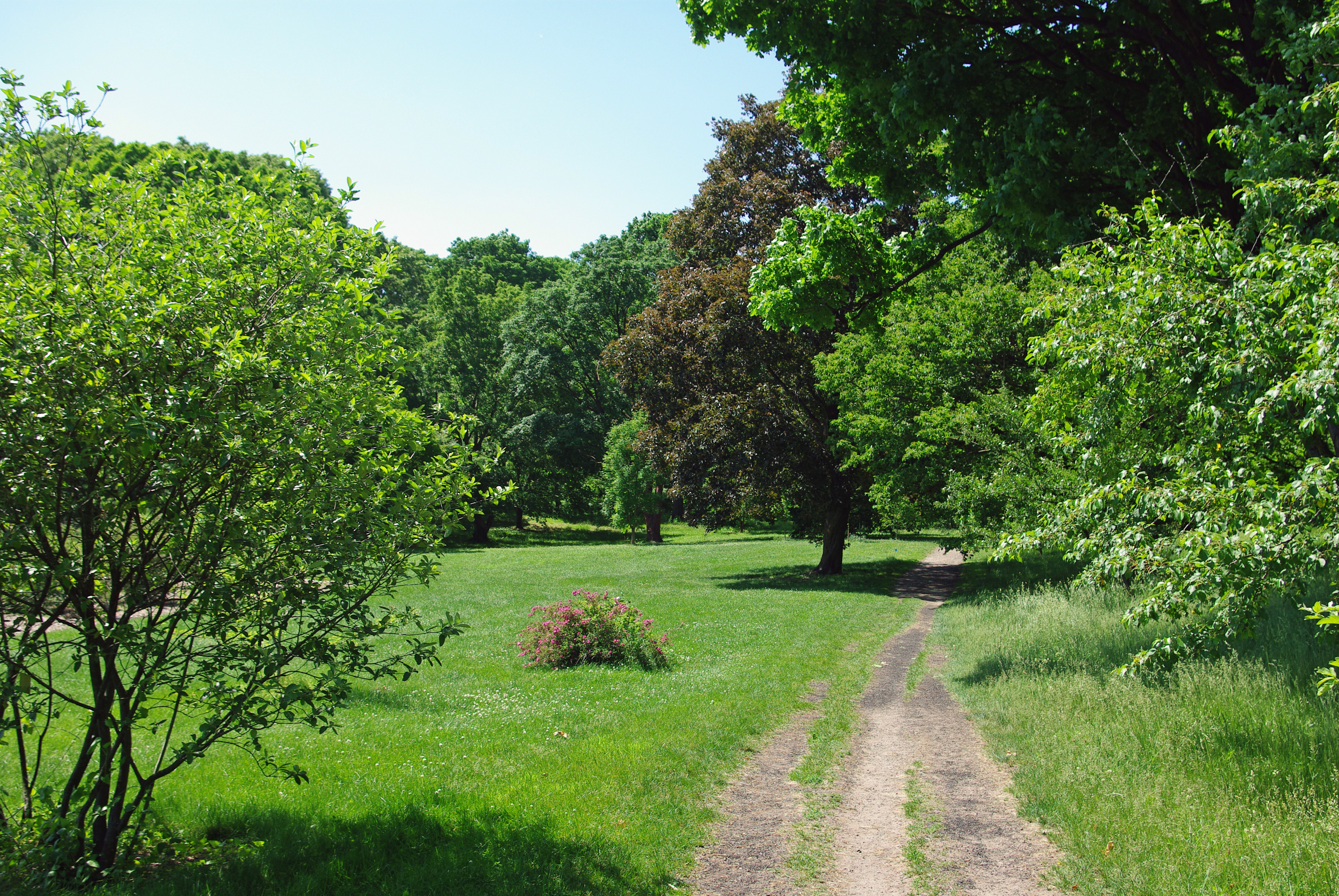 Willow Path, Arnold Arboretum